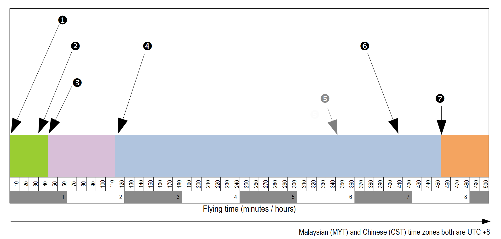 Malaysia Airlines Flight 370 time diagram unlabelled